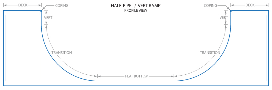 Half-Pipe Vert Ramp nomenclature. creator: Dennis Dowling